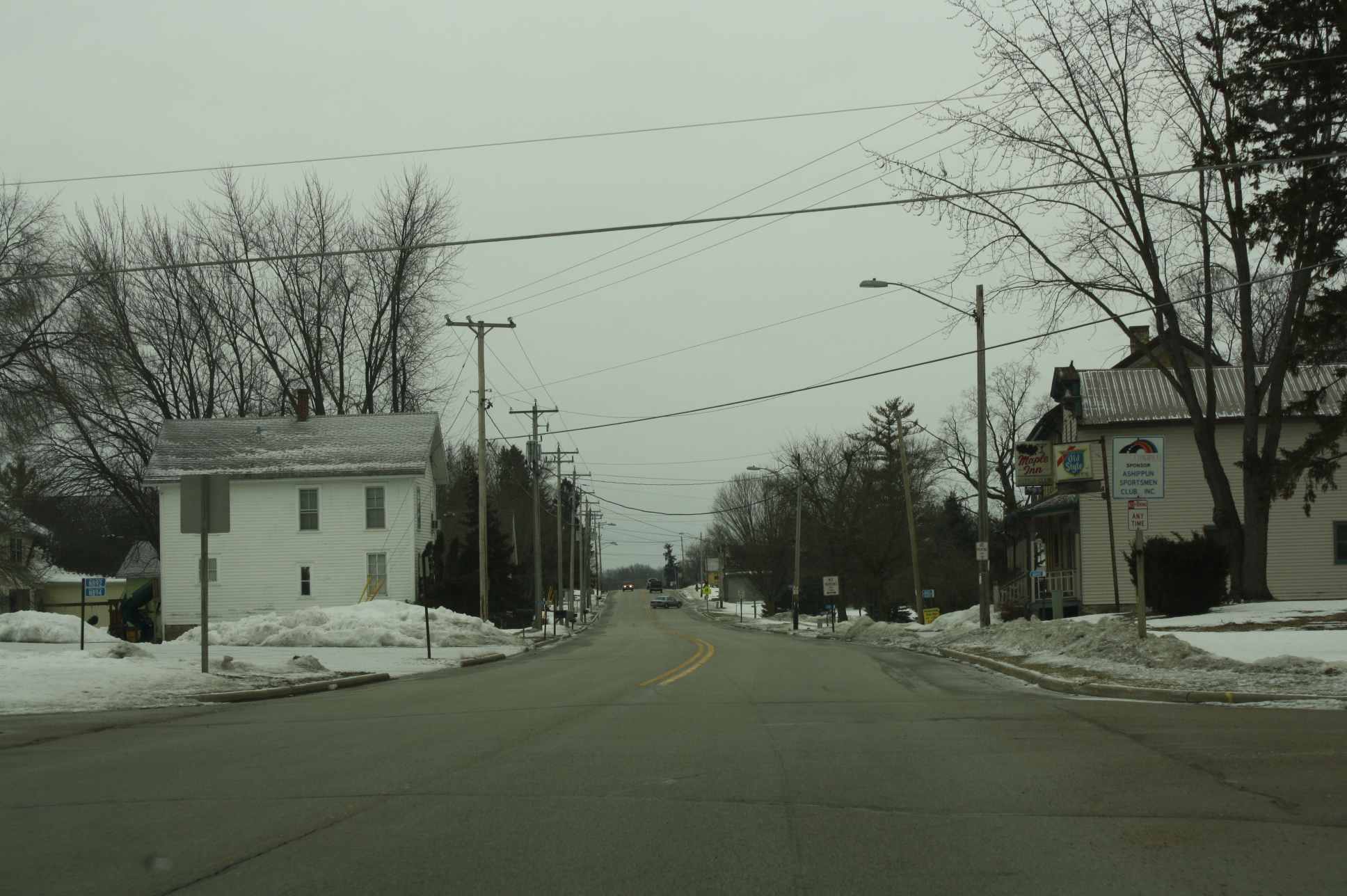 Looking south at downtown Old Ashippun, Wisconsin on Wisconsin Highway 67.